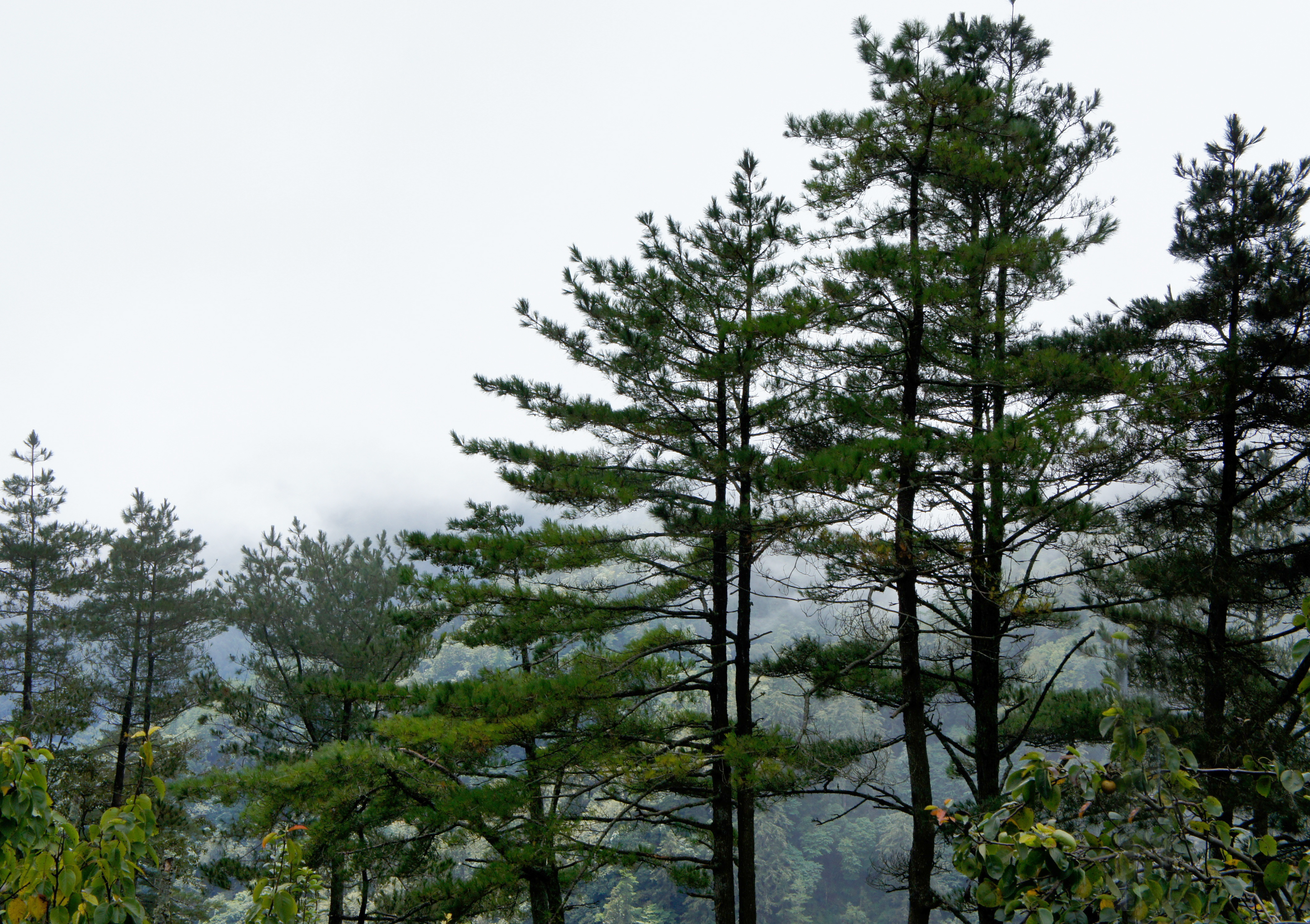 Pinus taiwanensis trees on East West Highway Taiwan